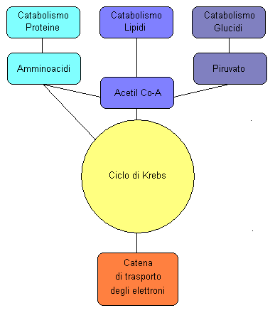 Citric Acid Cycle interactions (words in Italian)